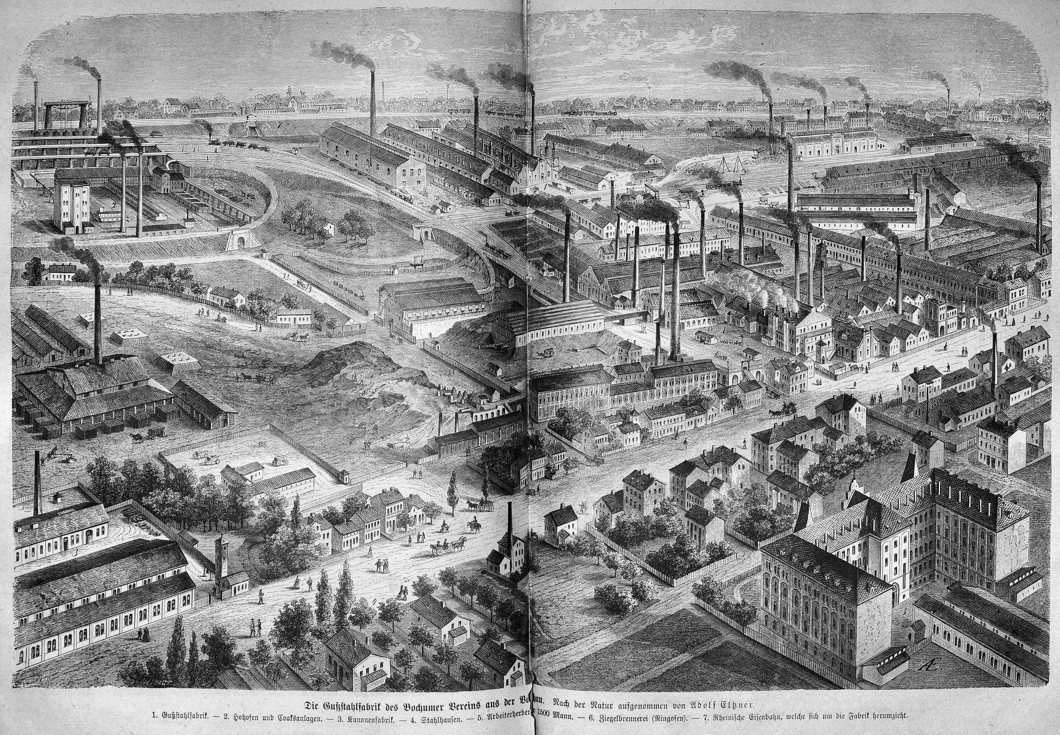 caption: "Die Gußstahlfabrik des Bochumer Vereins aus der Vogelschau. Nach der Natur aufgenommen von Adolf Eltzner. 1. Gußstahlfabrik. – 2. Hochofen und Coaksanlagen. – 3. Kanonenfabrik. – 4. Stahlhaufen. – 5. Arbeiterherberge für 1500 Mann. – 6. Ziegelbrennerei (Rundofen). – 7. Rheinische Eisenbahn, welche sich um die Fabrik herumzieht."